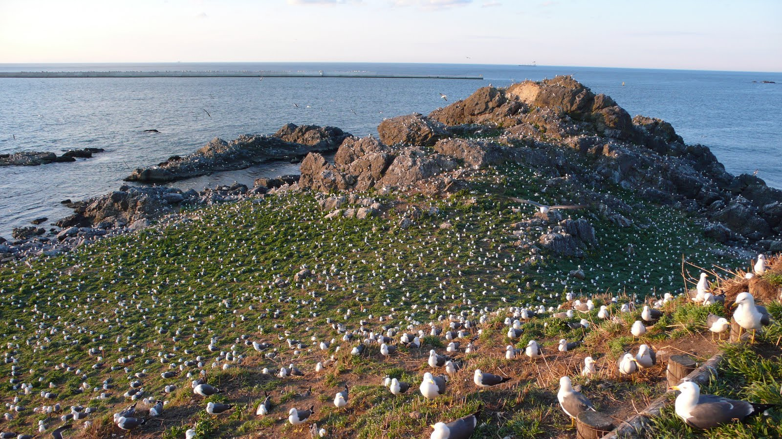 Larus crassirostris colony, Kabushima, Japan, in May 2010. Panasonic Lumix DMC-LX2